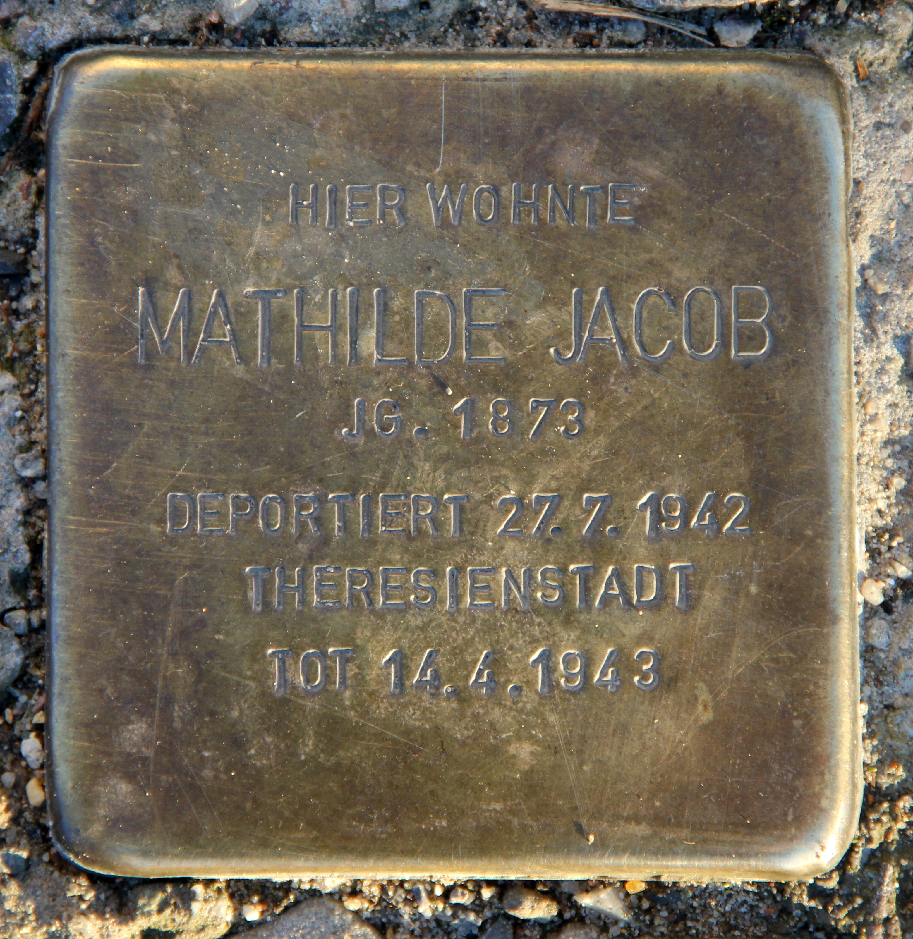 "Stolperstein" (stumbling block), Mathilde Jacob, Altonaer Straße 26, Berlin-Hansaviertel, Germany